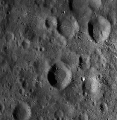 LROC image WAC No. M103251939ME. Marci is just below mid-centre in image (beside the well-defined crater chain at top of image, a portion of Marci B as well as Marci C is also included - see lettered image below).